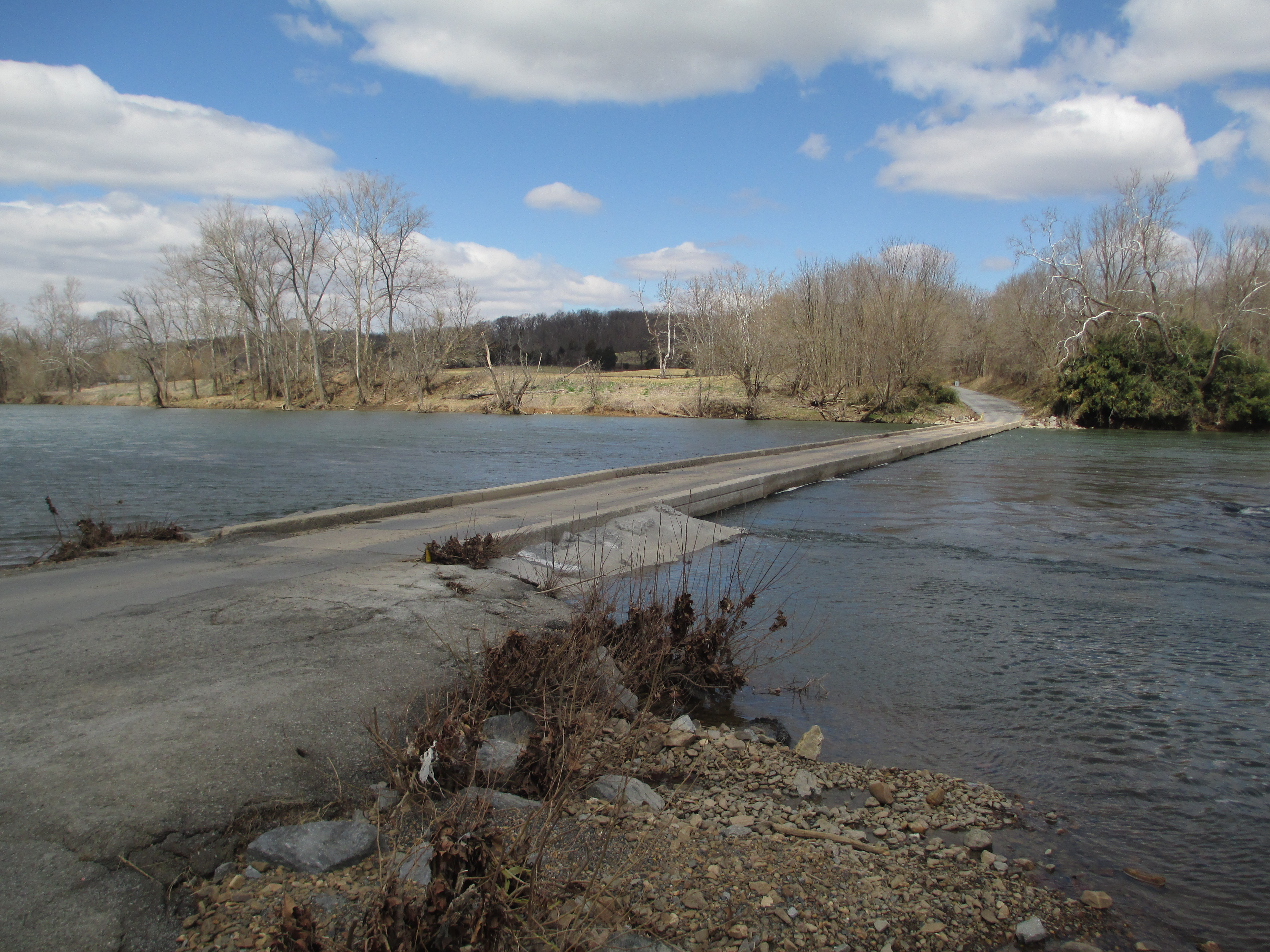 The single-lane low-water bridge over the Shenandoah River on Morgan Ford Road in Warren County, Virginia in March 2015.